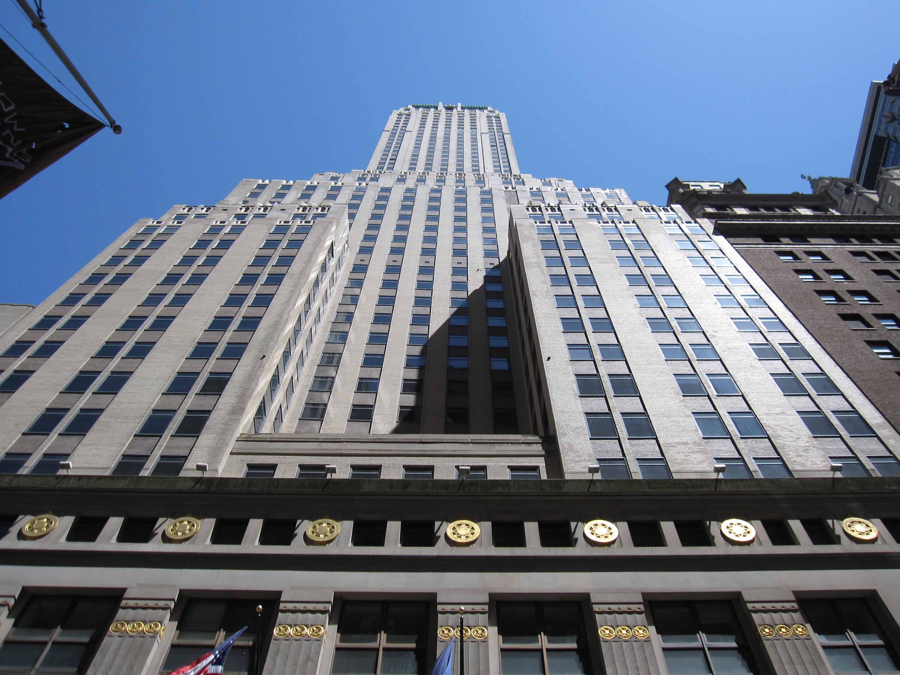 40 Wall Street